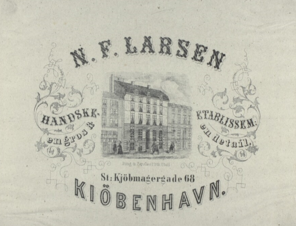 N. F. Larsen Handske-Etablissement at Store Købmagergade 68 in Copenhagen, Denmark